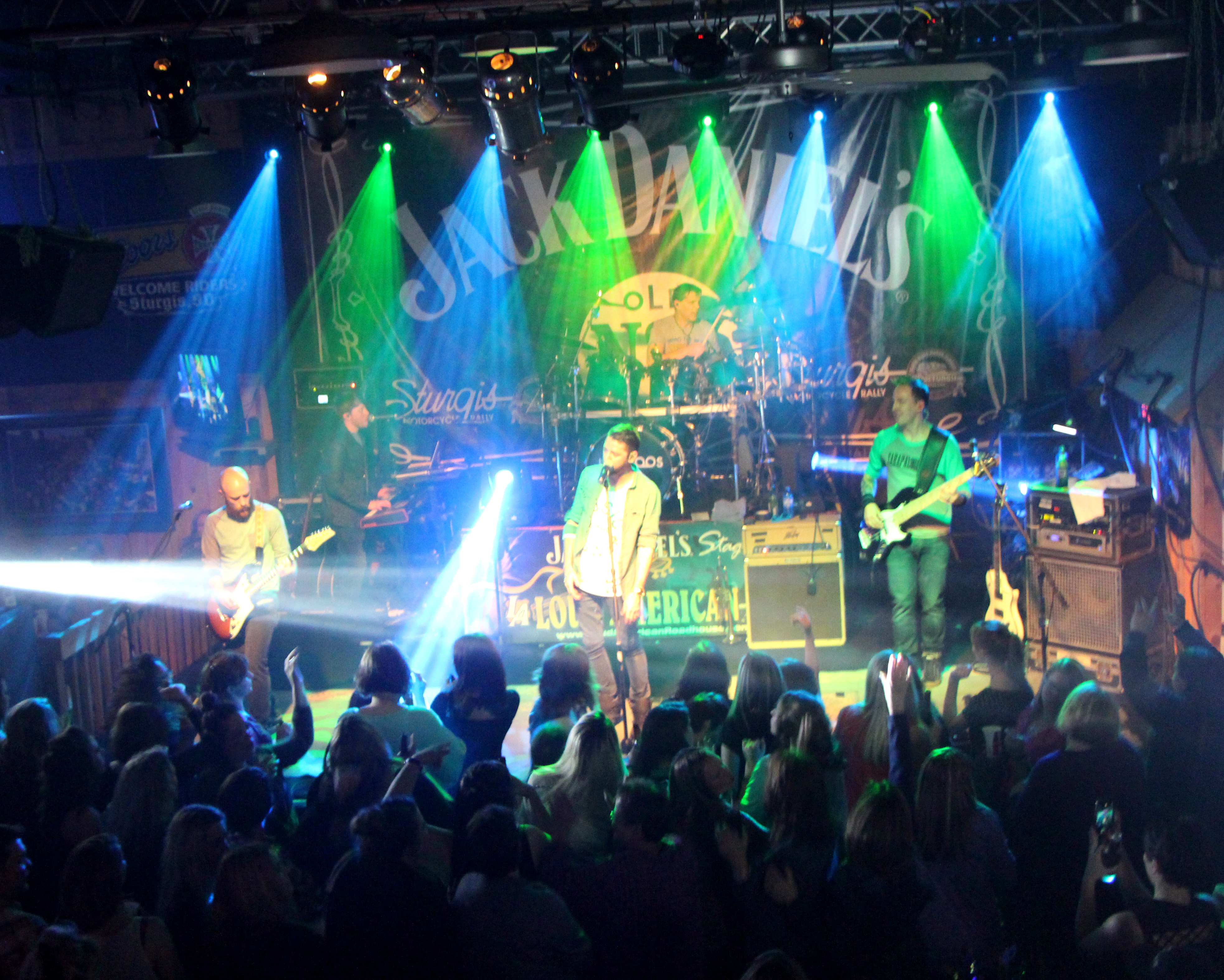 Judd Hoos Playing at the Loud American in Sturgis.